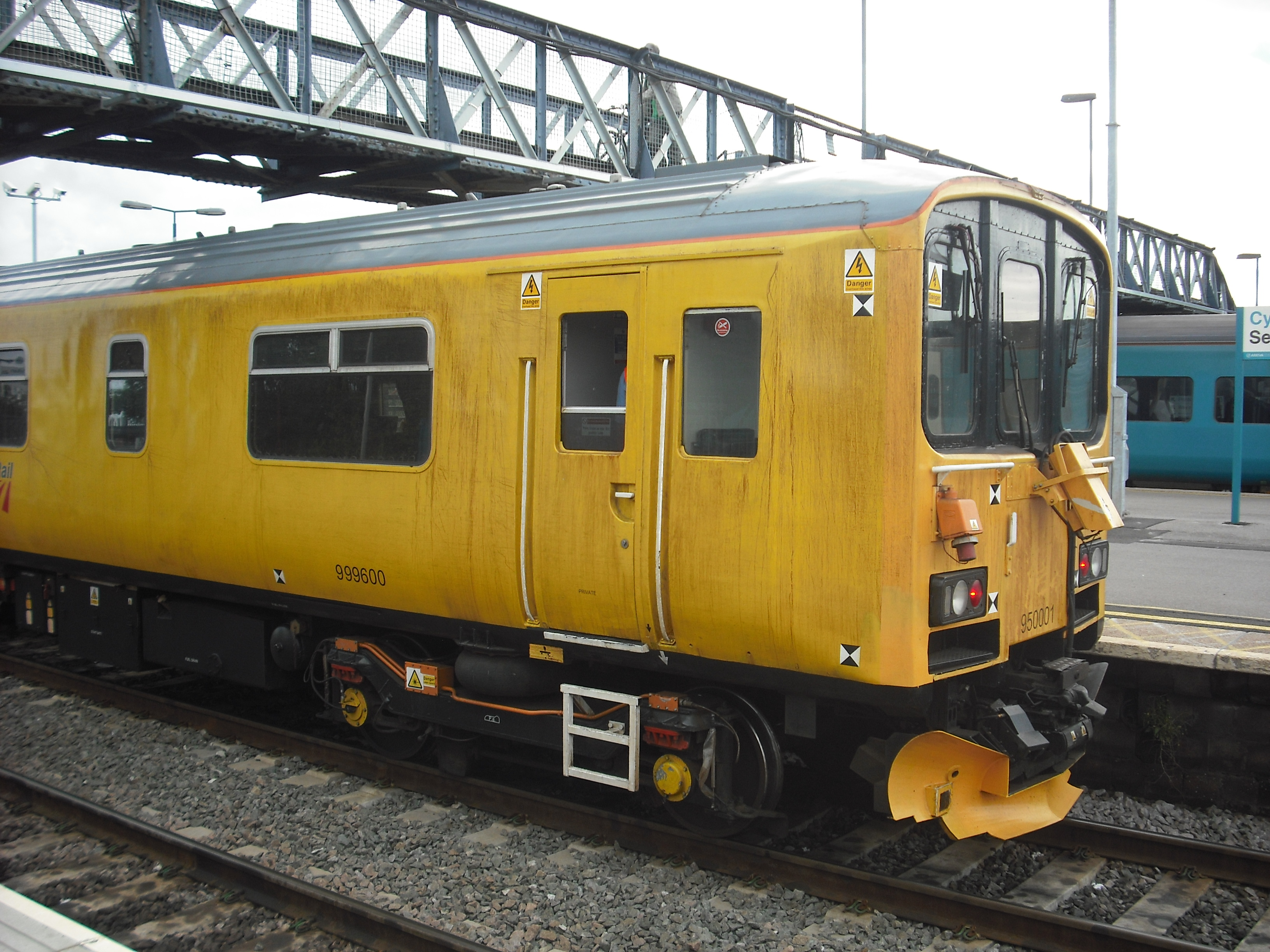 British Rail Class 950 950001 / 999600 at Severn Tunnel Junction